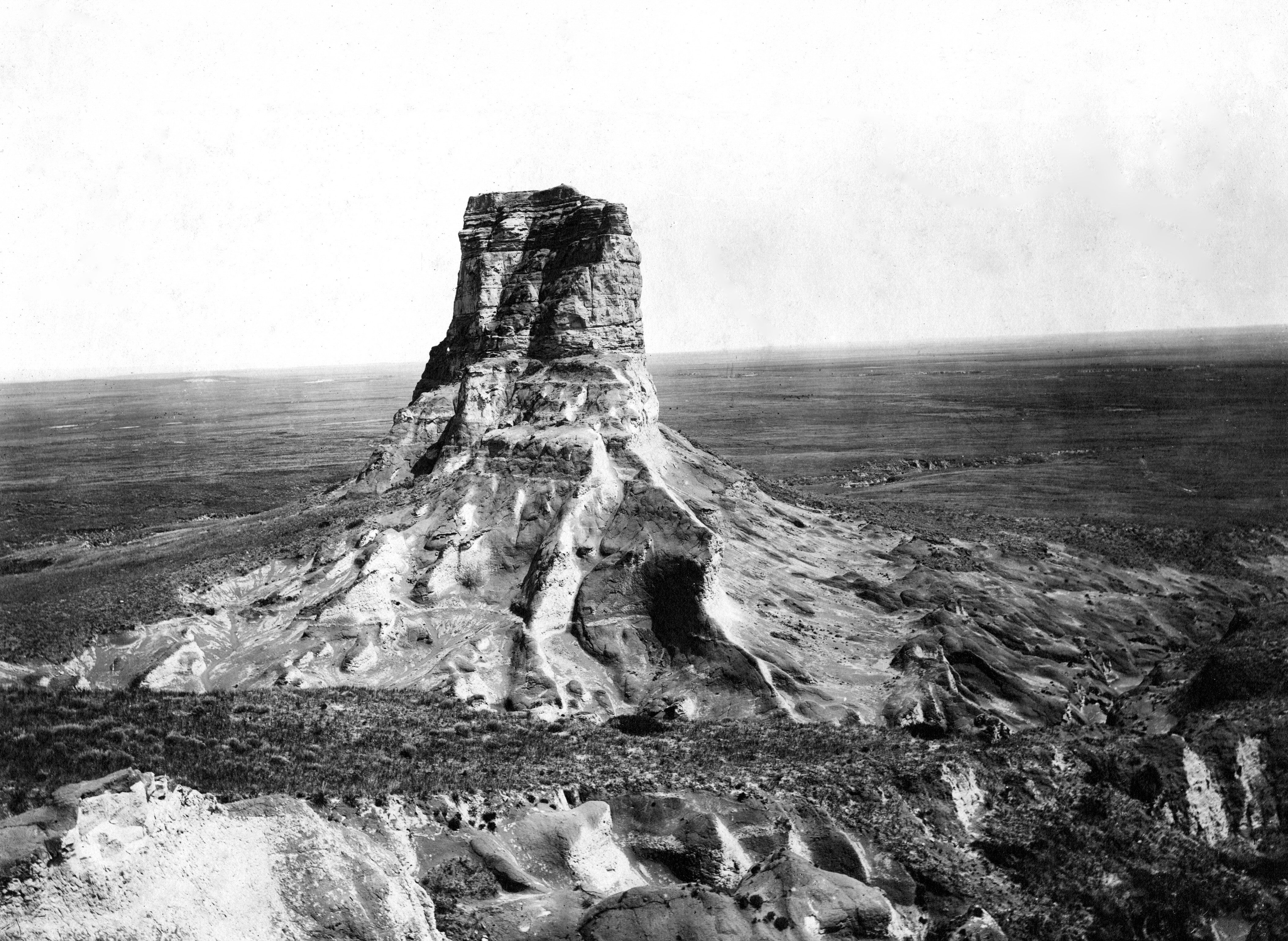 Jail Rock from the west, Morrill County, Nebraska, 1897. Plate 5 in U.S. Geological Survey. Professional paper 17. 1903; plate 7-A in U.S. Geological Survey. Bulletin 612. 1915: Figure 18 in U.S. Geological Survey. Folio 87. 1903.